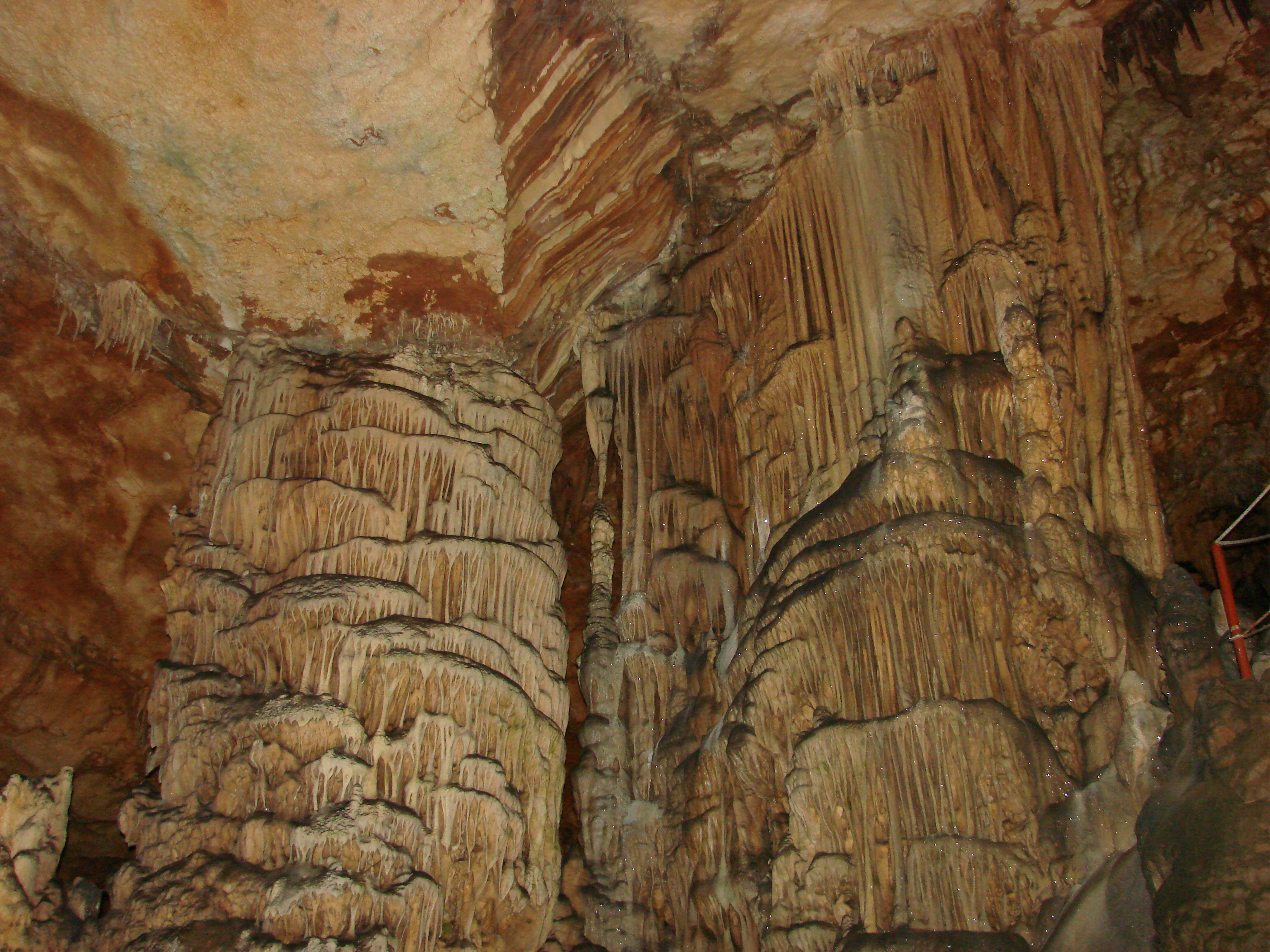 Vranjača cave